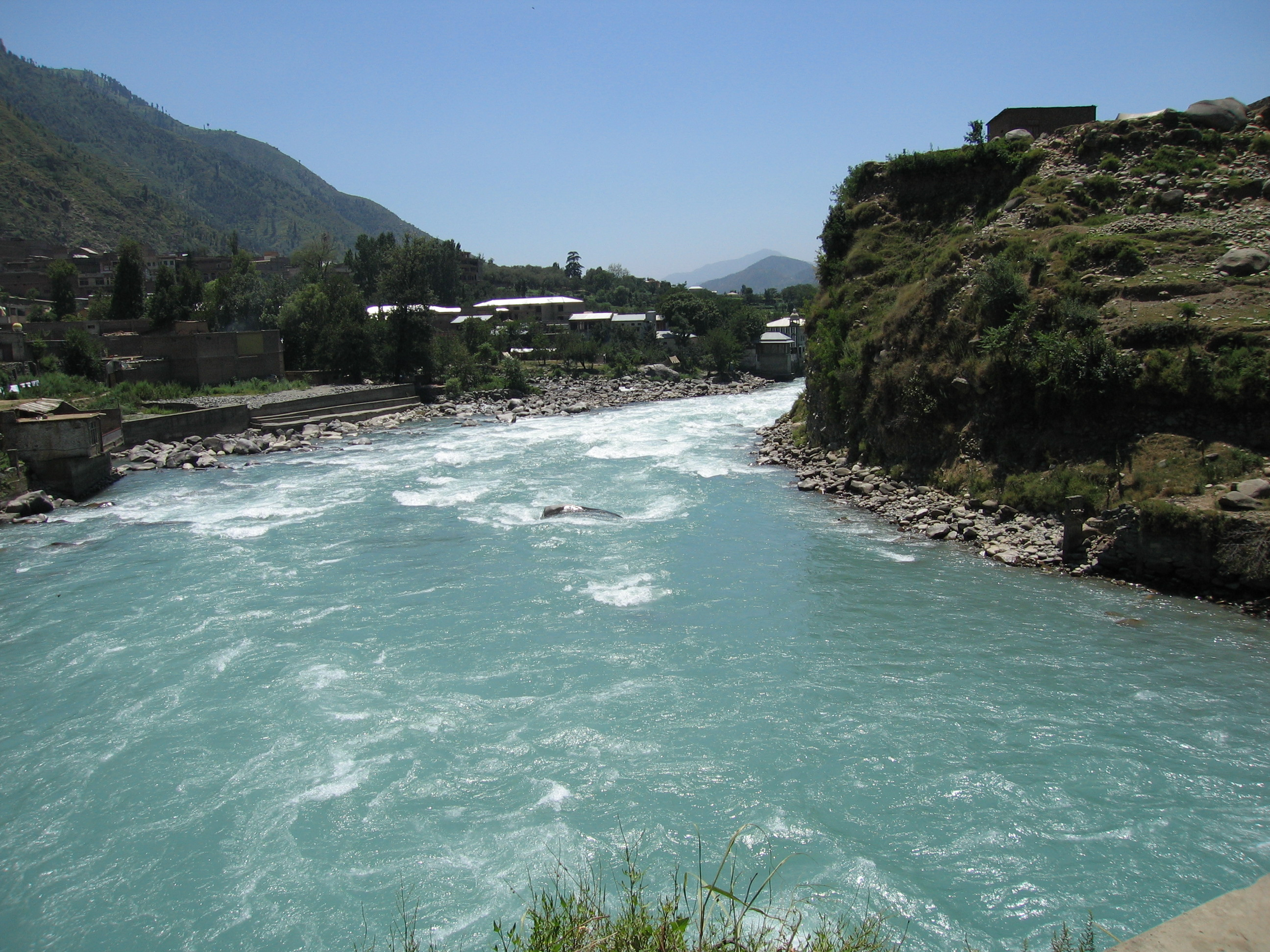 Swat River Khyber Pakhtunkhwa